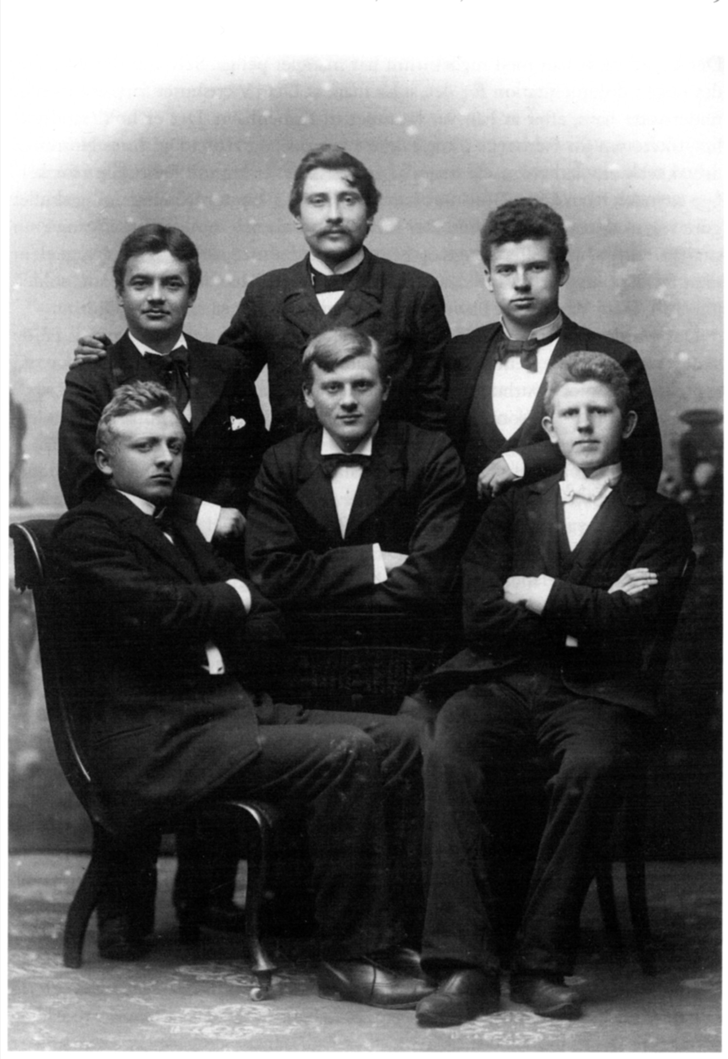 standing from left to right: Jákup Dahl, Magnus Dahl, Jógvan Waagstein; sitting from left to right: Janus Djurhuus, Petur Dahl, Oluf Skaalum